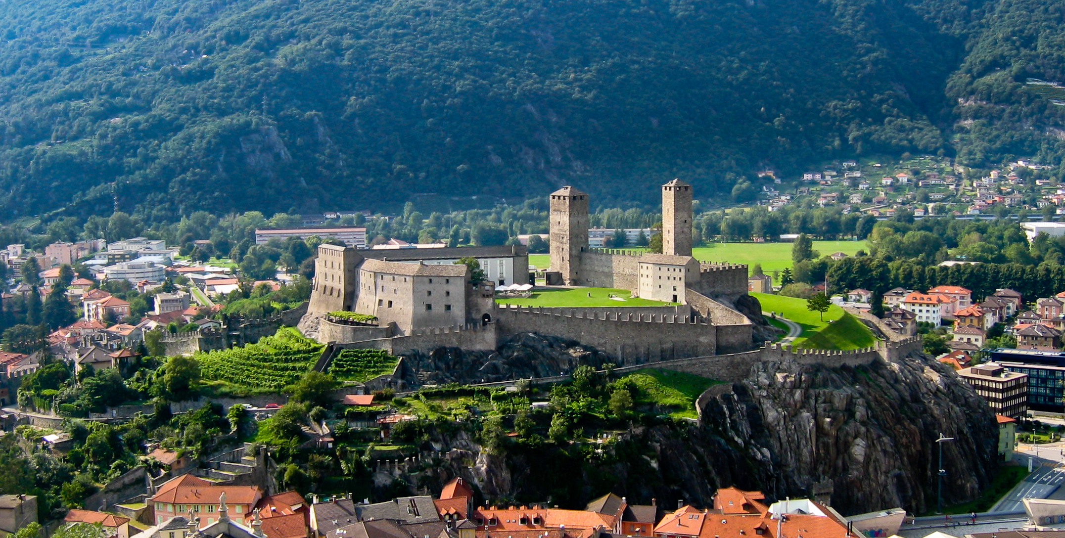 View of Bellinzona's Castelgrande as seen from Castello di Montebello.